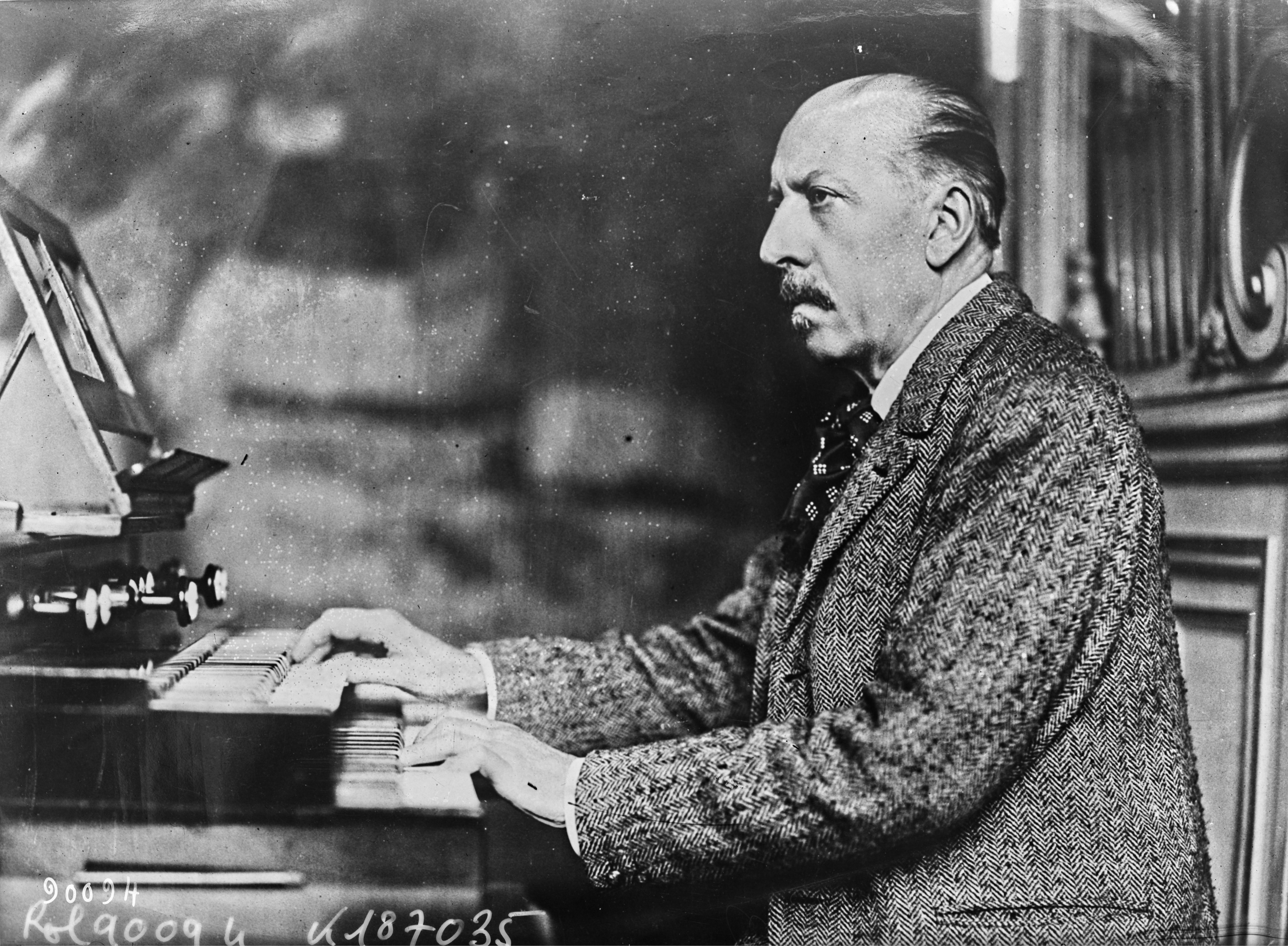 Charles-Marie Widor playing organ.